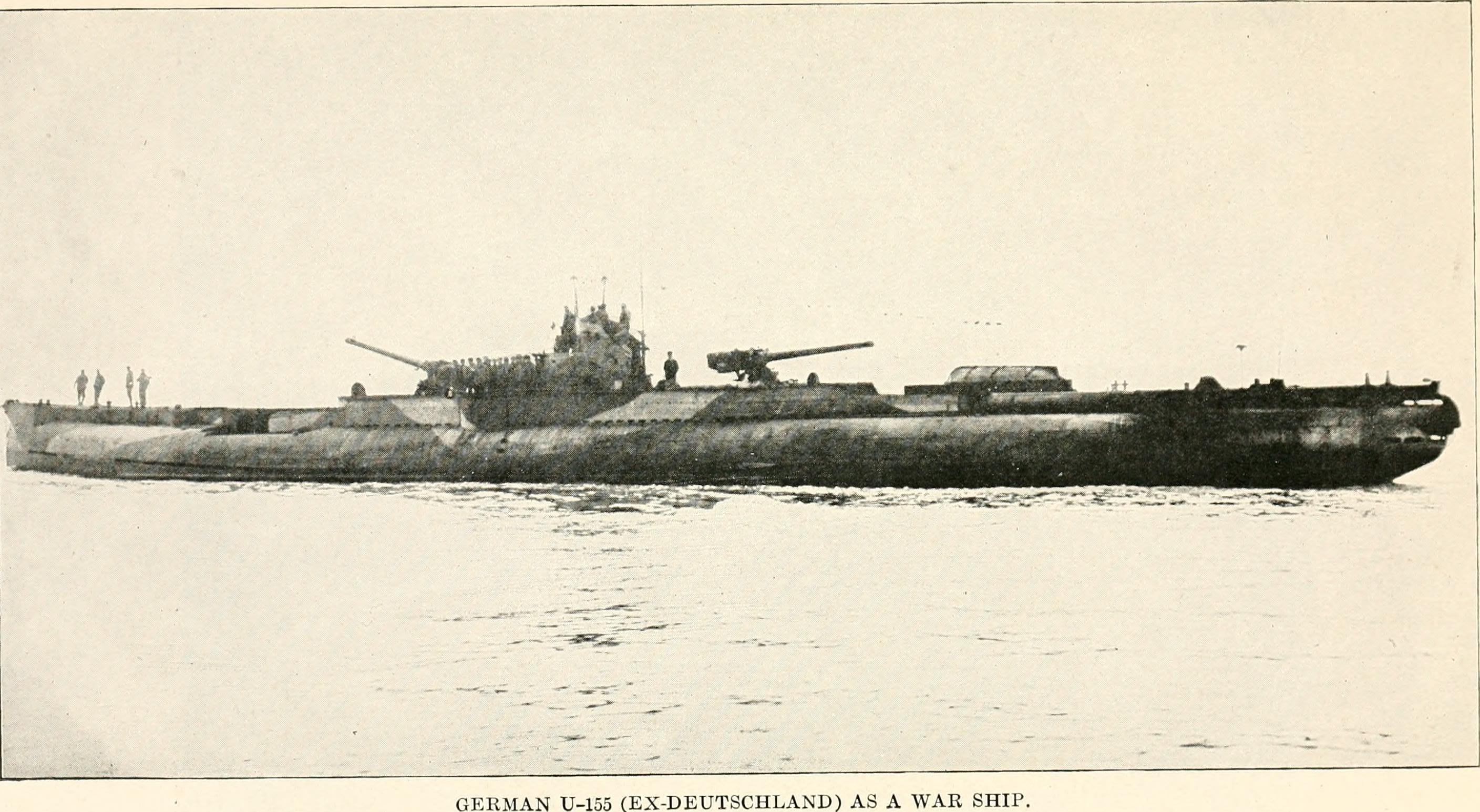 Title: German submarine activities on the Atlantic coast of the United States and Canada Year: 1920 (1920s) Authors: United States. Office of Naval Records and Library Subjects: World War, 1914-1918 -- Naval operations Submarine World War, 1914-1918 -- Germany Publisher: Washington : Govt. Print. Off. Text Appearing Before Image: saldo was damaged, one gun putout of commission, and three members of the crew wounded. At 9 a. m. the following morning the British S. S. Thespis sightedthe periscope of the U-117 in latitude 39° 54 N., longitude 69° 25 W.The Thespis turned stern to and made off at full speed. The subma-rine then dove and it was believed she had been shaken off. At10.40, however, the wake of a torpedo was observed. The steamerhaving succeeded in avoiding injury by the narrow margin of 20 feet,the submarine rose to the surface and opened fire. Tlie TJiespisreplied and after a running fight lasting half an hour outdistancedher enemy. At 6 p. m. the same day, when in latitude 40° 30 N., longitude58° 35 W., Capt, Eric Risberg, of the Swedish steamer Algeria, 2,190gross tons, sighted the raider about a mile oft, on the port beam ofhis ship. The captain states that the next thing he knew the submarine fired a shot whichfell about 600 feet off the port beam; he then stopped the engines and gave two long Text Appearing After Image: 96-1